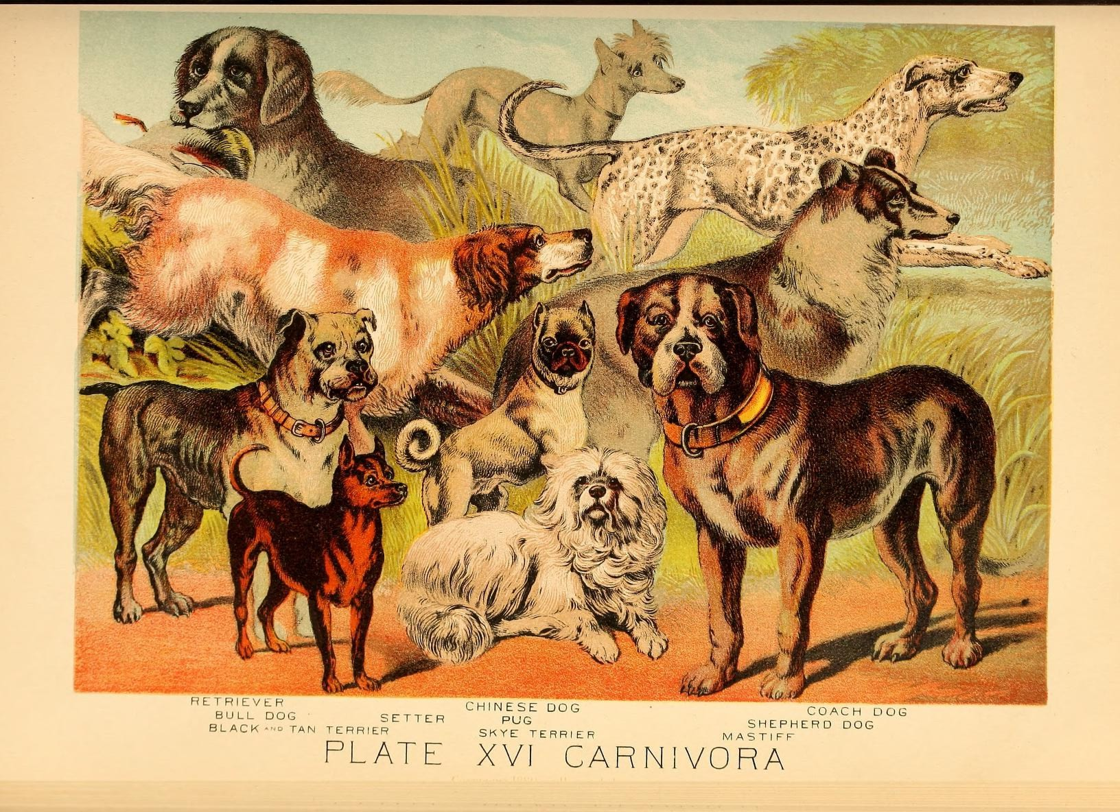 Johnson's household book of nature, containing full and interesting descriptions of the animal kingdom, based upon the writings of the eminent naturalists, Audubon, Wallace, Brehm, Wood and others.